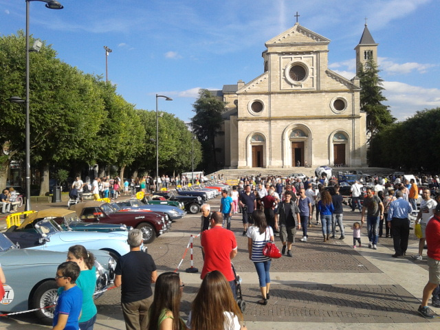 Risorgimento square and the cathedral, Avezzano, Abruzzo, Italy